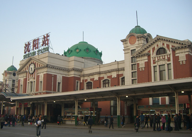 Shenyang Railway Station, Liaoning Province, China